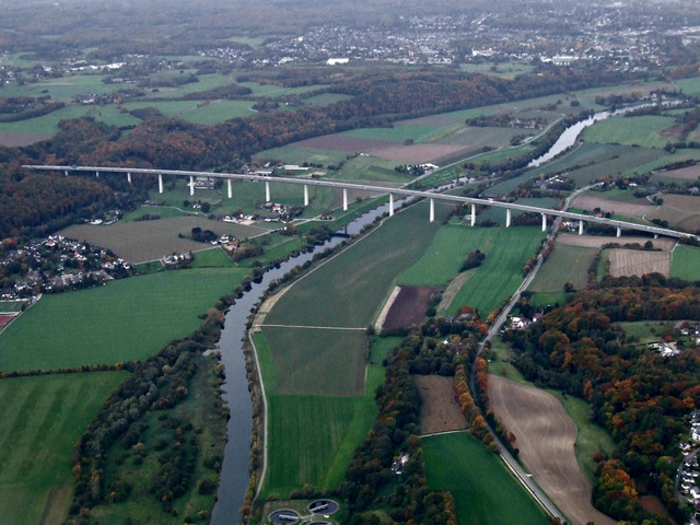 Mintarder bridge from the air Carrying the A52 high above the River Ruhr which is presumably navigable at this point, hence the high level bridge. Viewed from a flight from Glasgow on approach to Dusseldorf.